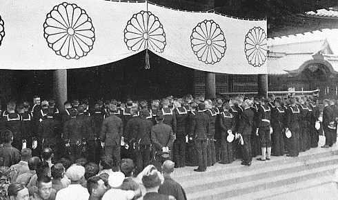 US Navy personnel visit to the Yasukuni Shrine in 1930s